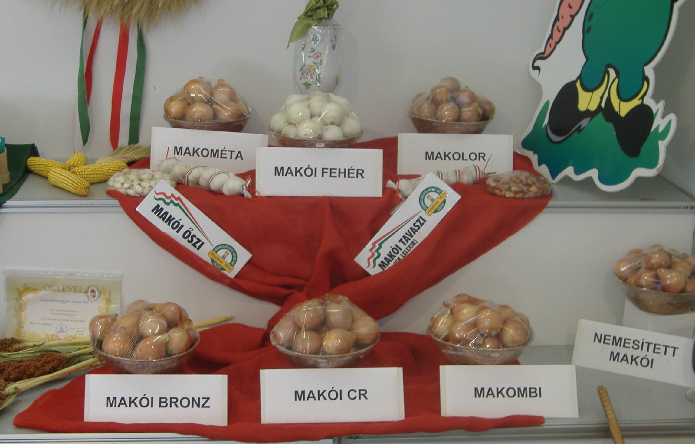 Kinds of Makó Onion, in an exhibition of the 2007 International Onion Festival , in Makó, Hungary.